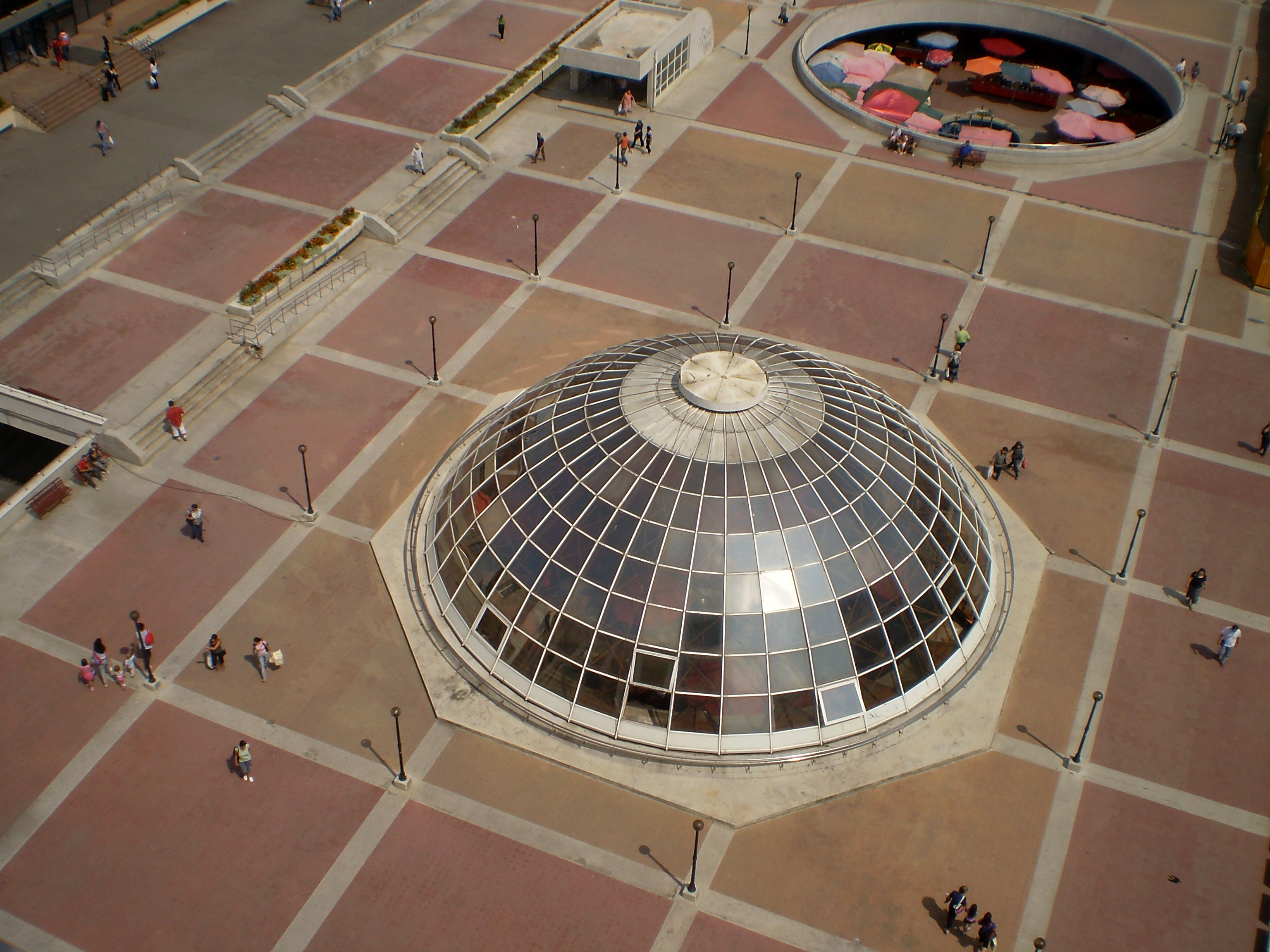 Iaşi , panoramic view to Central Market , underground market , Iaşi ,Romania